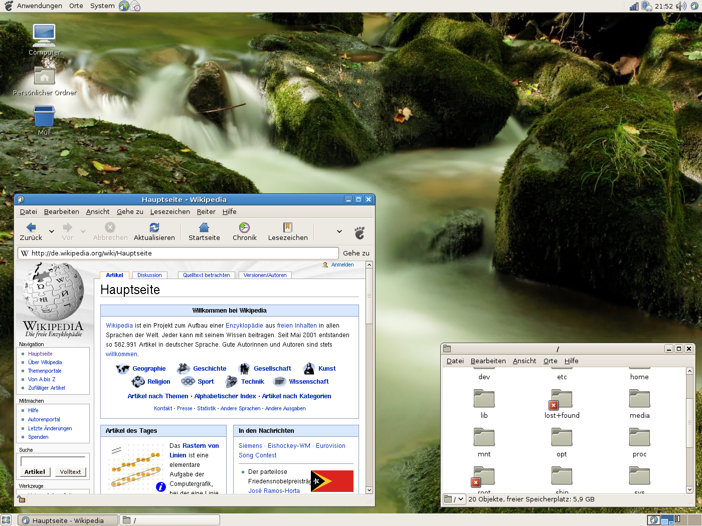 Screenshoot von GNOME 2.18.1 Long exposure shot of the stream in Plas Power Woods near Wrexham, Wales.